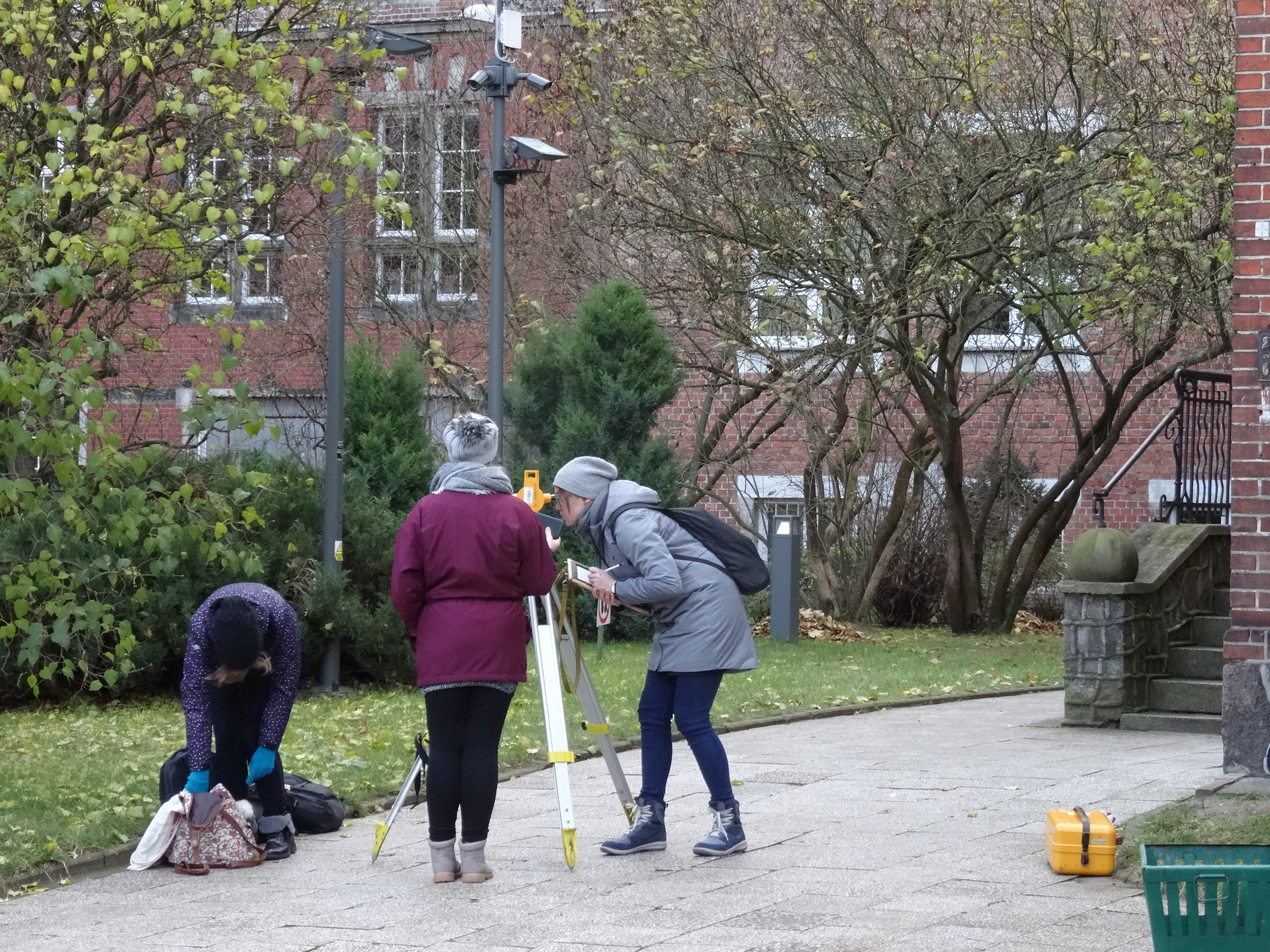 Field classes in geodesy on the campus of the Gdańsk University of Technology serve the practical learning of the profession of engineer